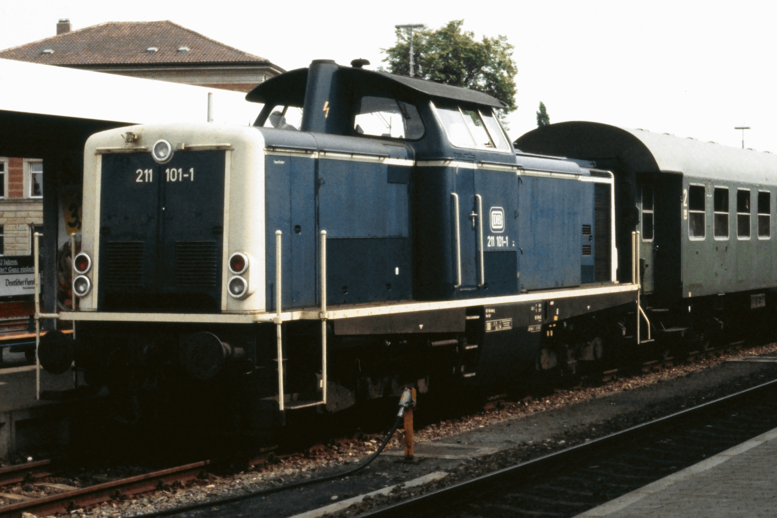 DB 211 101-1 in Bayreuth Centralstation